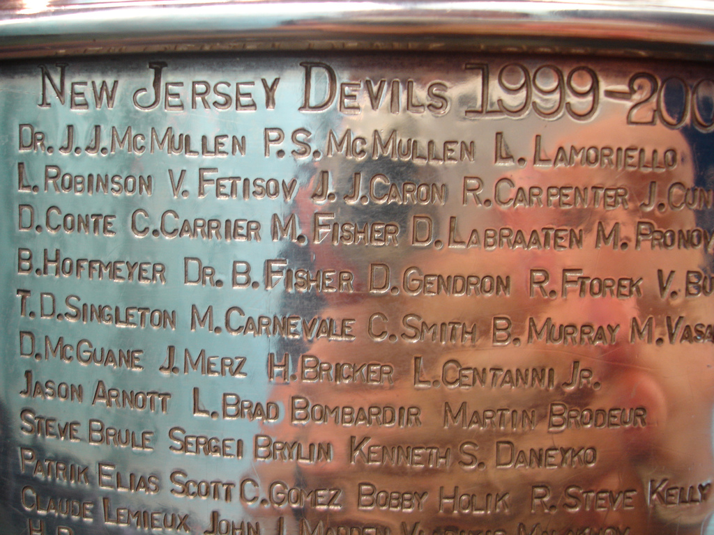 The engraved names of the 1999-2000 Stanley Cup champions New Jersey Devilsagain, for Todd